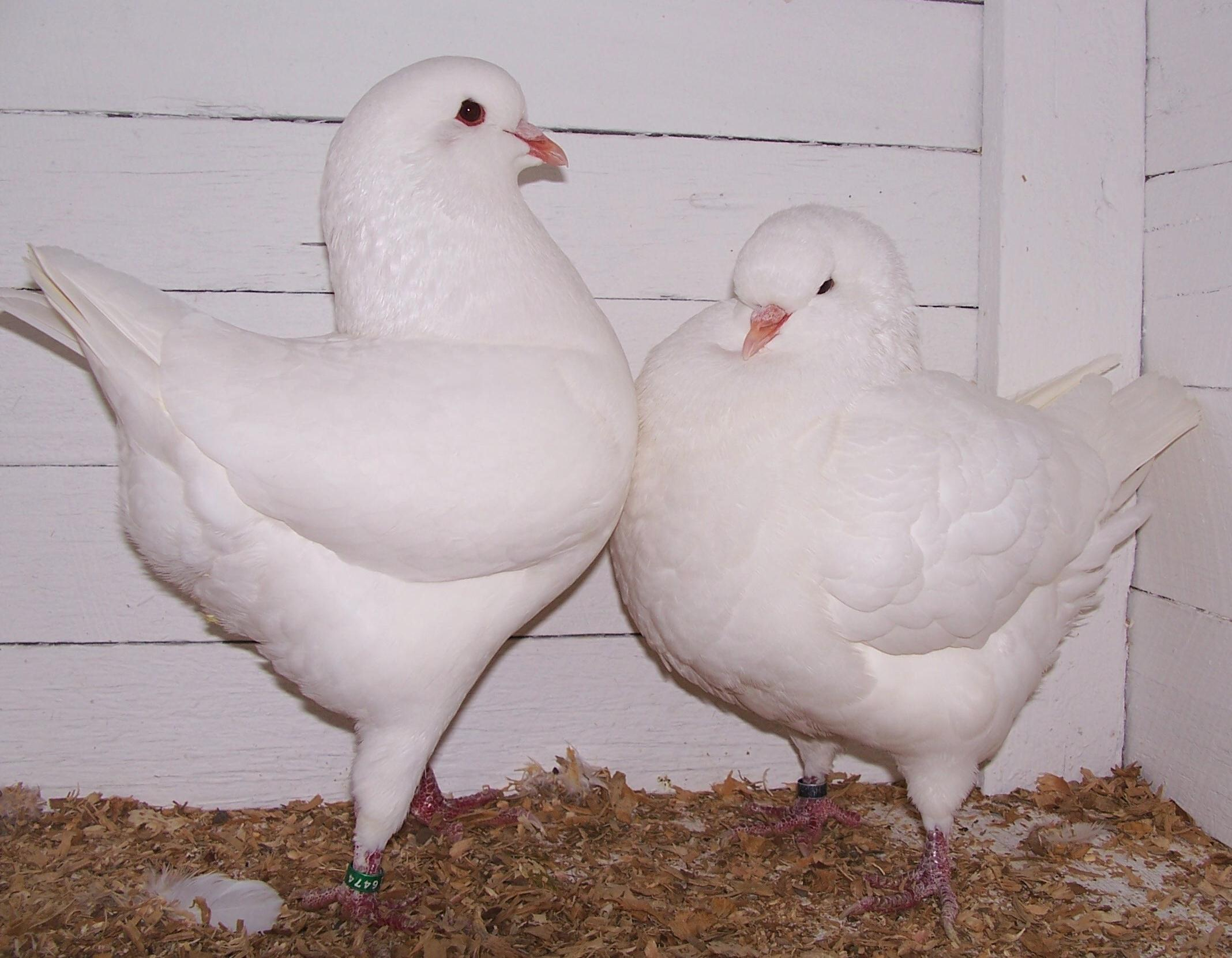 A pair of white King pigeons on display at a show in Ipswich, Queensland. Birds owned by John Wiseman.